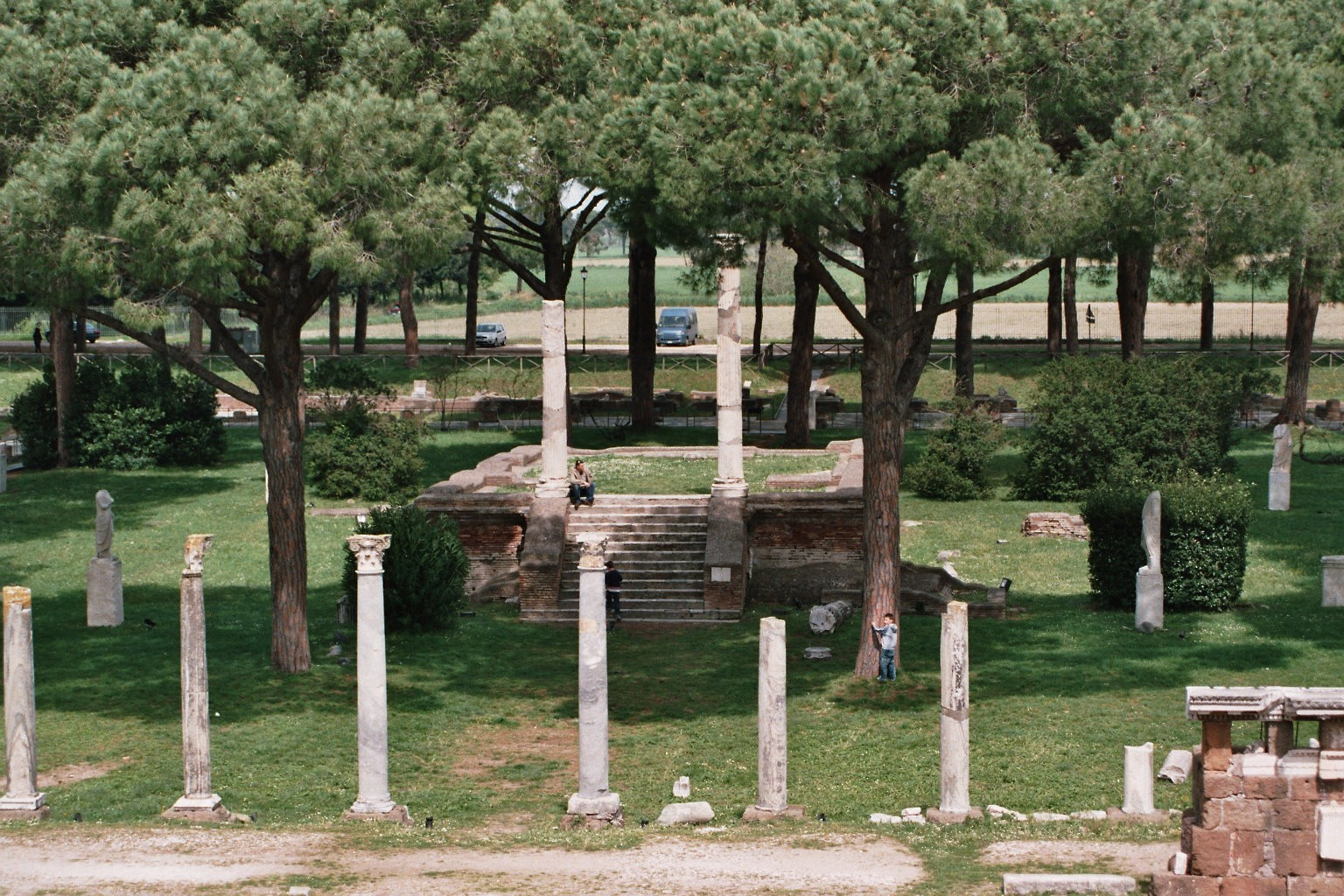 Temple in the centre of the Piazzale delle Corporazioni (regio II, insula VII), reign of Domitian. Ostia Antica, Italy.